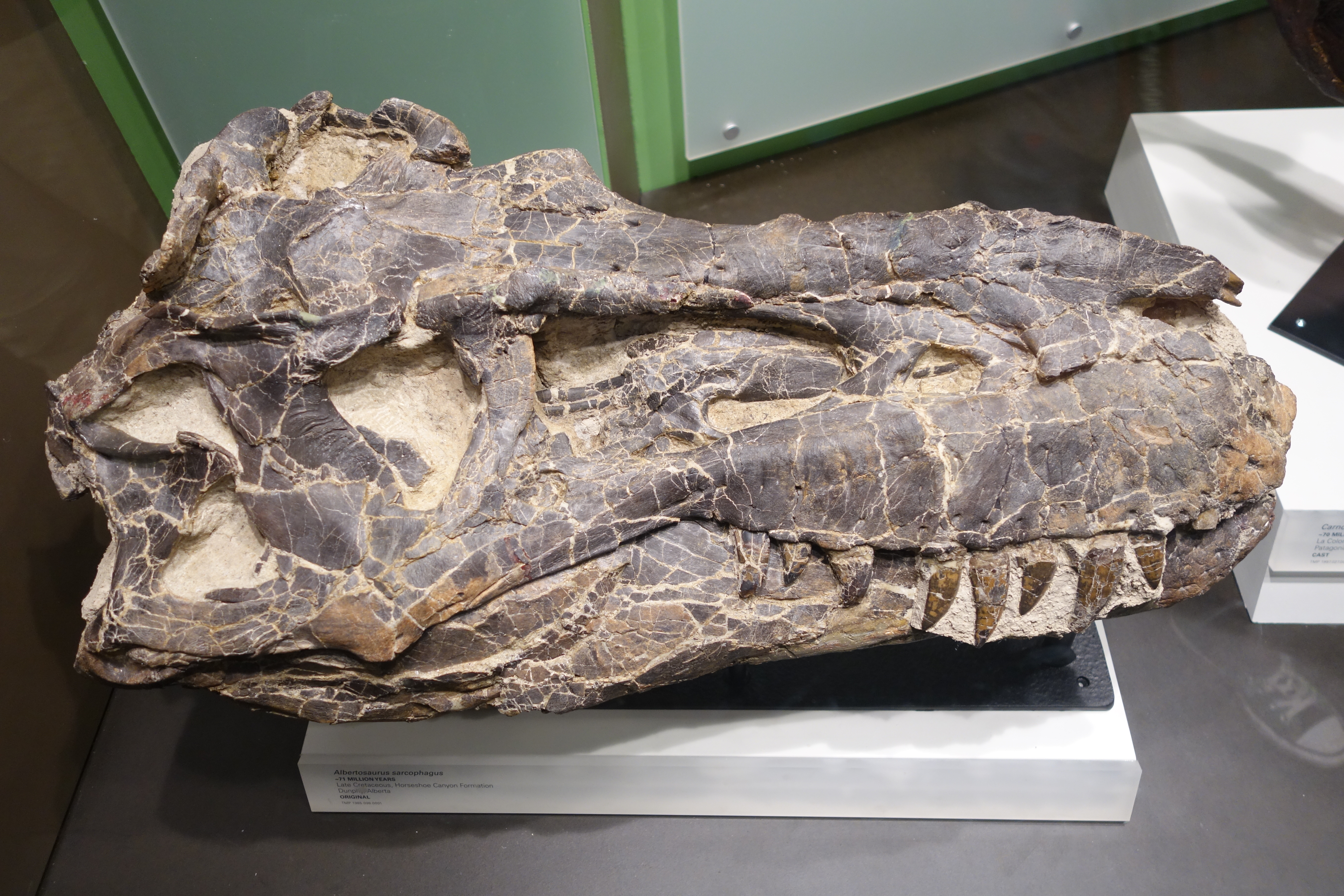 Albertosaurus sarcophagus skull (original). From the Horseshoe Canyon Formation at Dunphy, Alberta. Specimen number TMP 1985 098 0001. On display at the Royal Tyrrell Museum, Alberta, Canada.